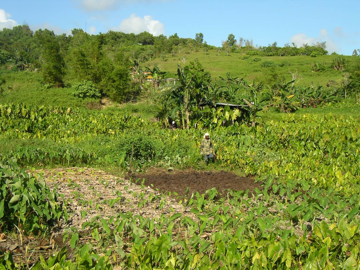 This land is using cover and mulch to improve soil health. Photo courtesy of NRCS.